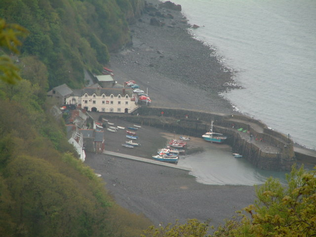 Clovelly Harbour From a viewpoint on Hobby Drive with zoom lens.